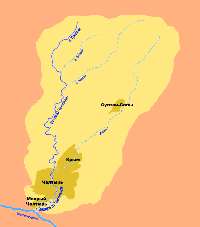 Mokry Chaltyr River basin.